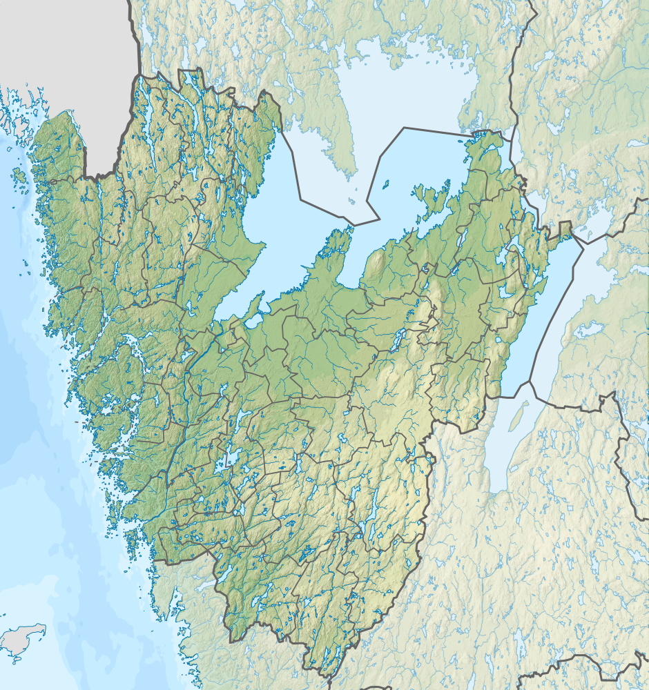 Location map of Västra Götaland in Sweden Equirectangular projection, N/S stretching 190 %. Geographic limits of the map: N: 59.50° N S: 57.10° N W: 10.90° E E: 15.20° E